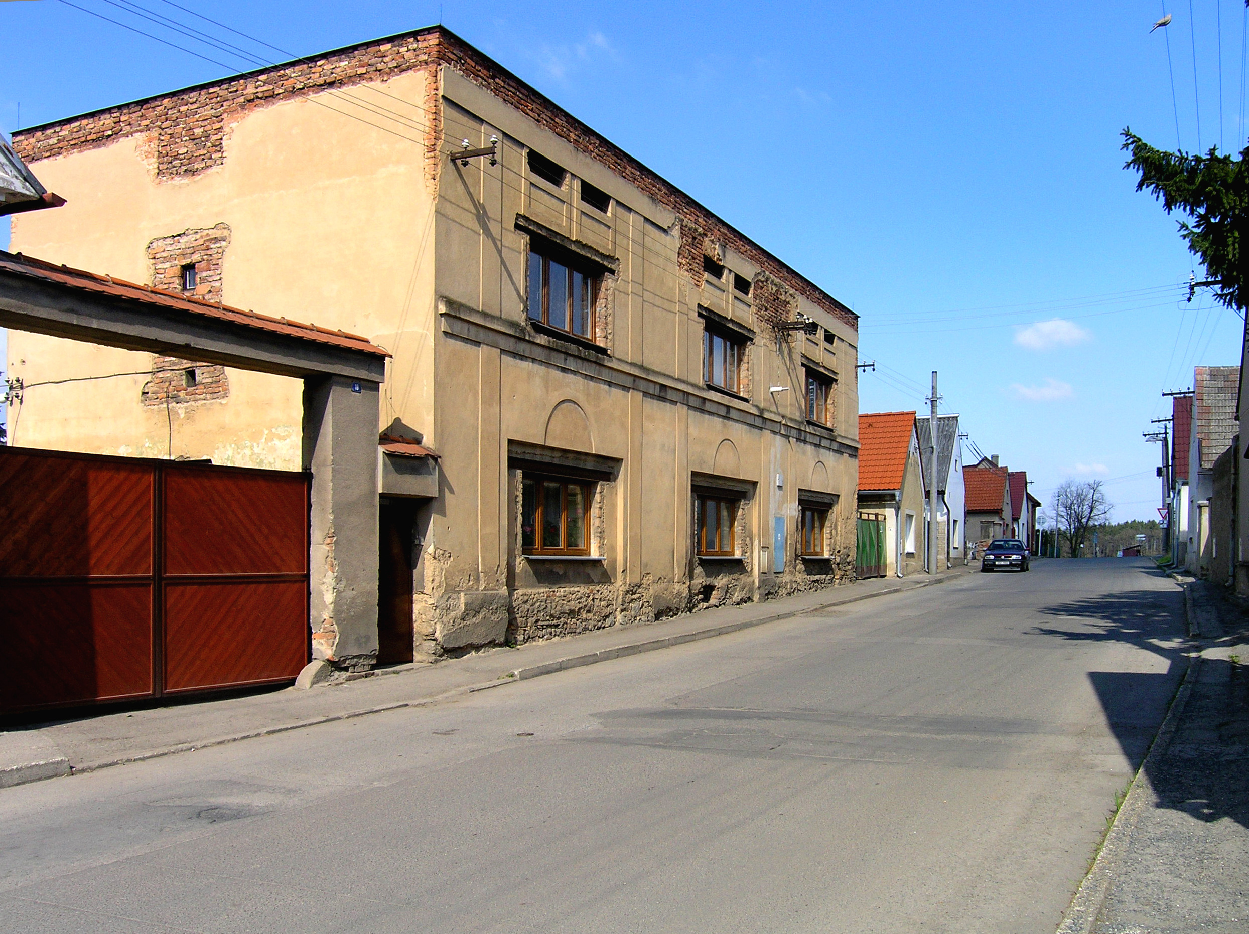 Main street in Dobříč village, Czech Republic